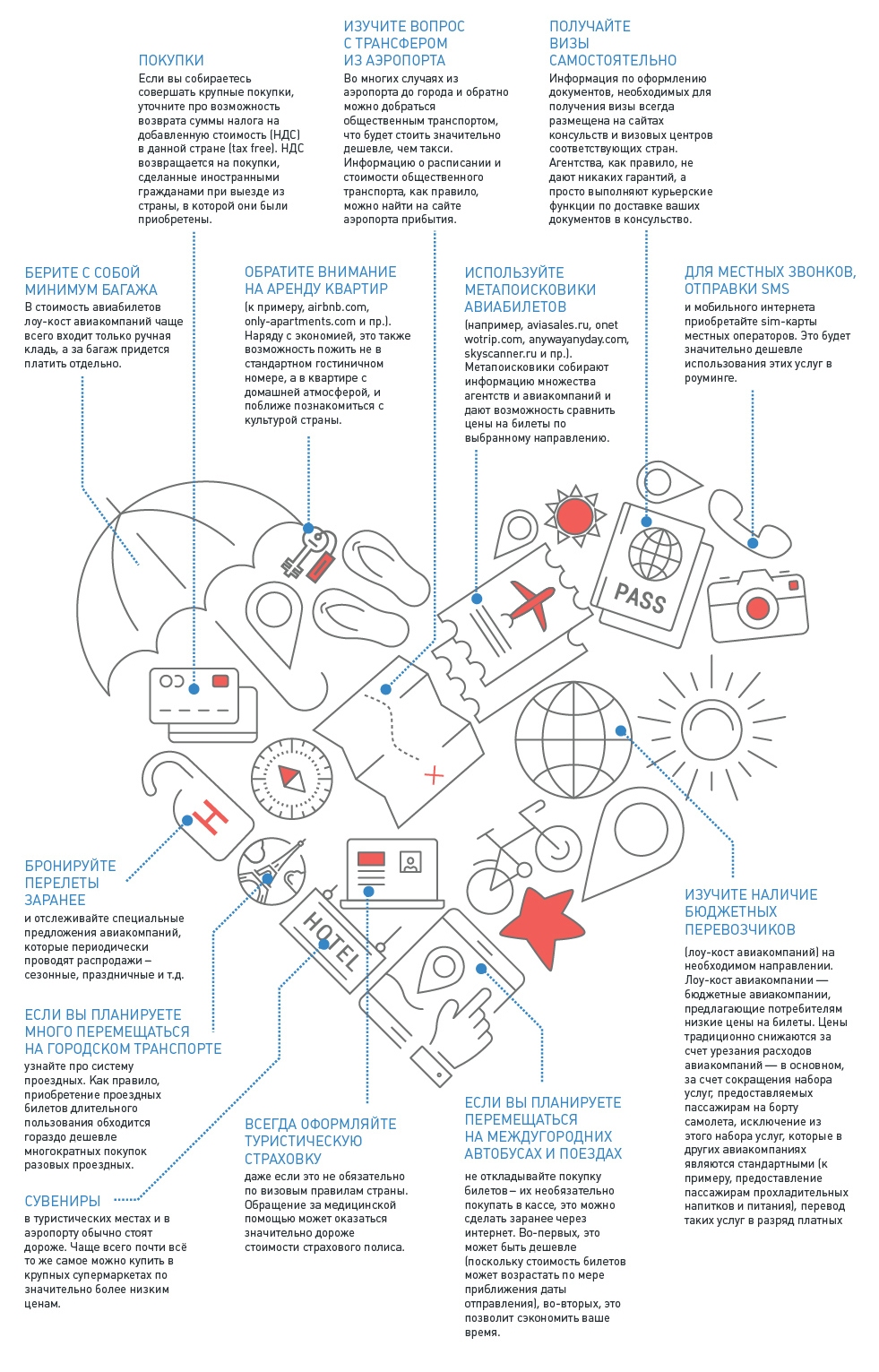 Recomendation for Independent travel of The Russiatourism